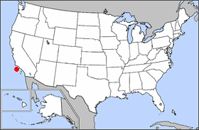 Locator map of Channel Islands National Park — in the Pacific Ocean, Southern California. Protecting the northern Channel Islands of California — located off the Pacific coast in Santa Barbara County and Ventura County.